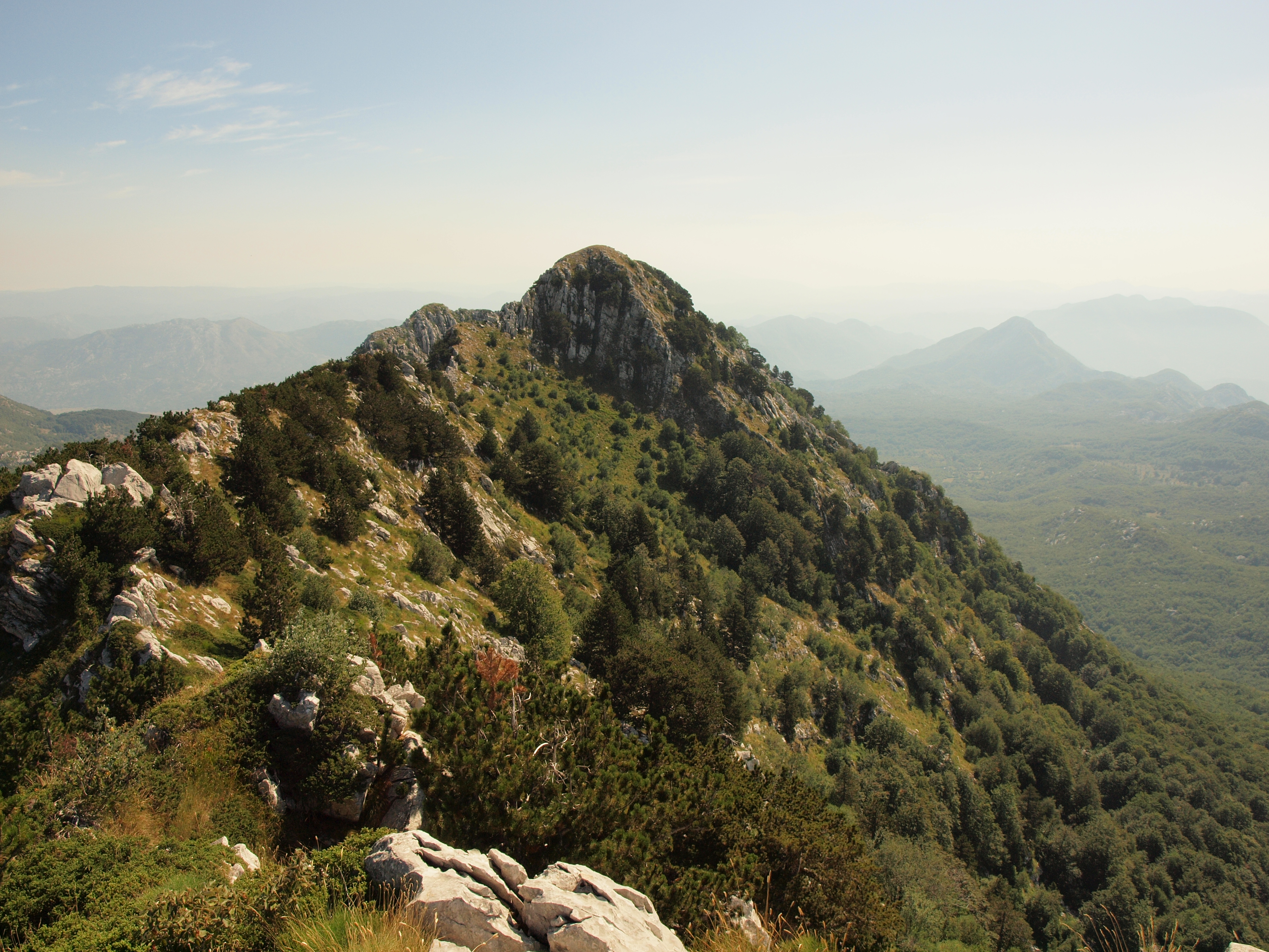 Velje leto from Pazua crest